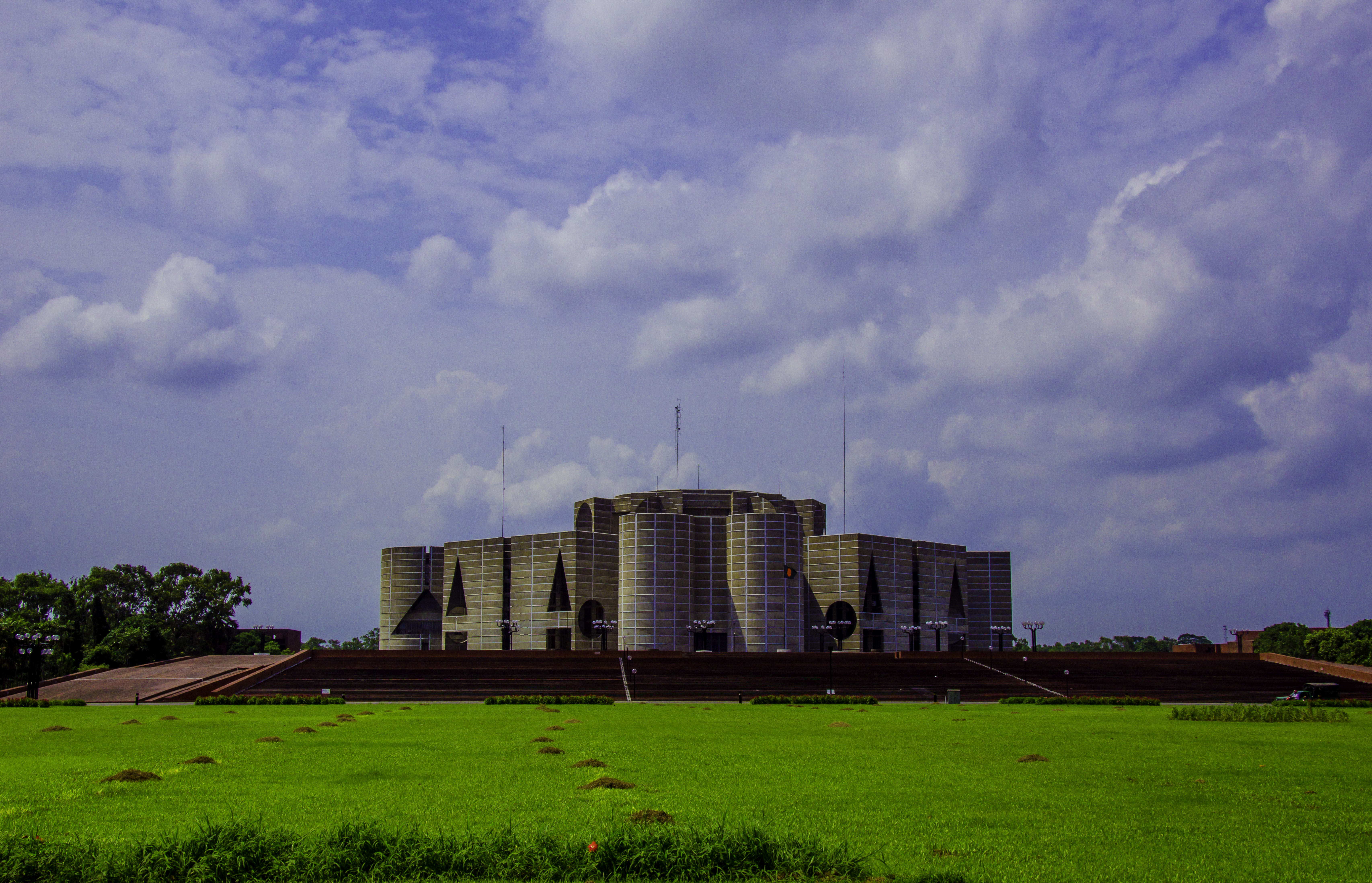 Jatiyo Sangsad Bhaban, Bangladesh.